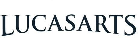 Lucas arts wordmark